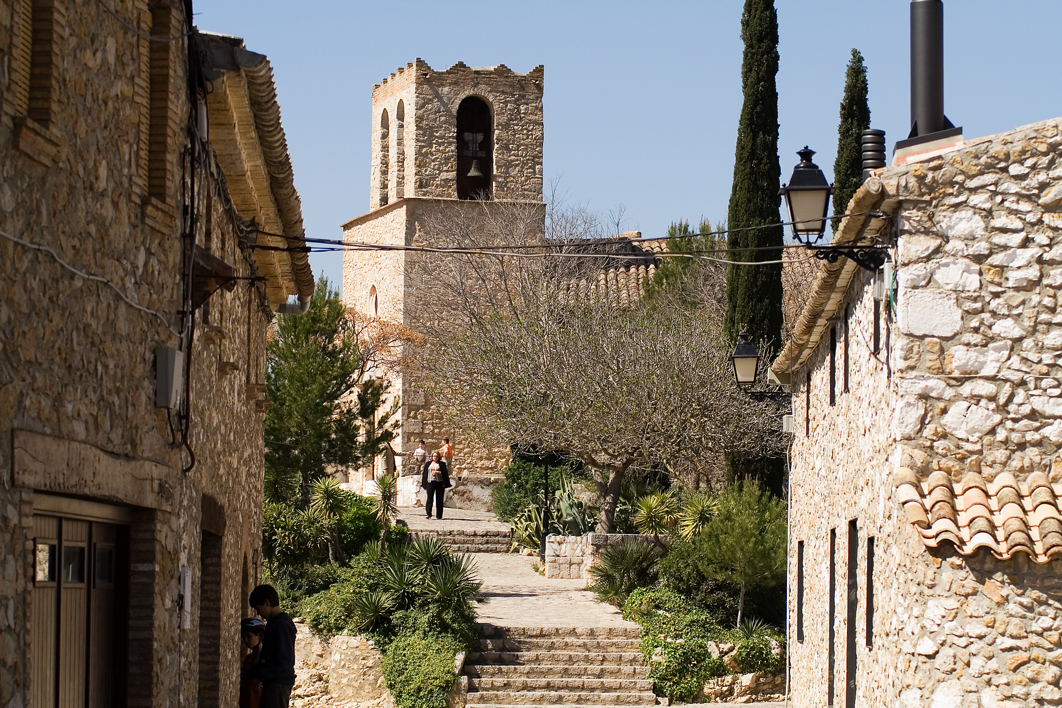 Olivella church, taken in April 2006